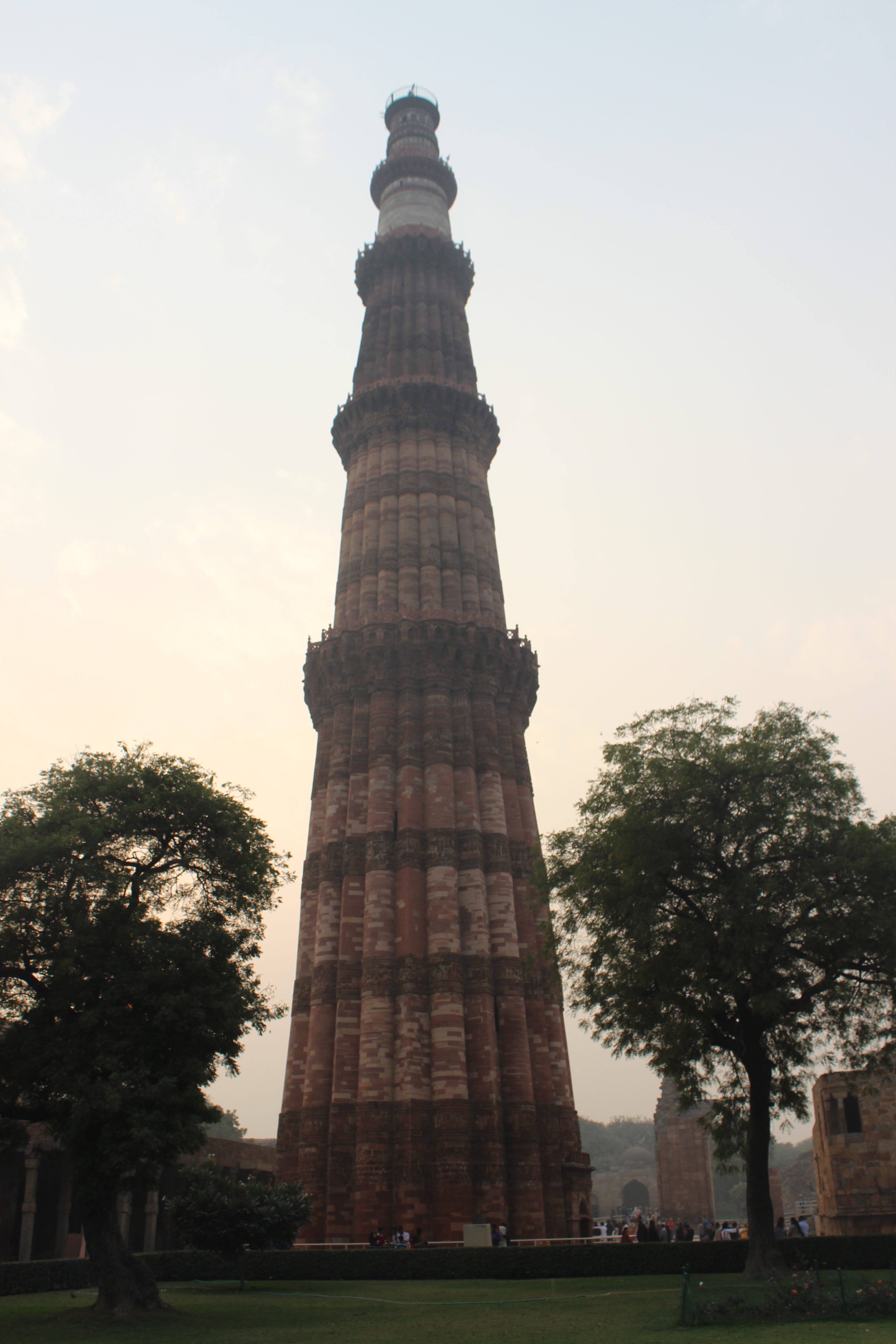 Different views of the Qutub Minar in New Delhi, India. One of the most outstanding pieces of Medieval India